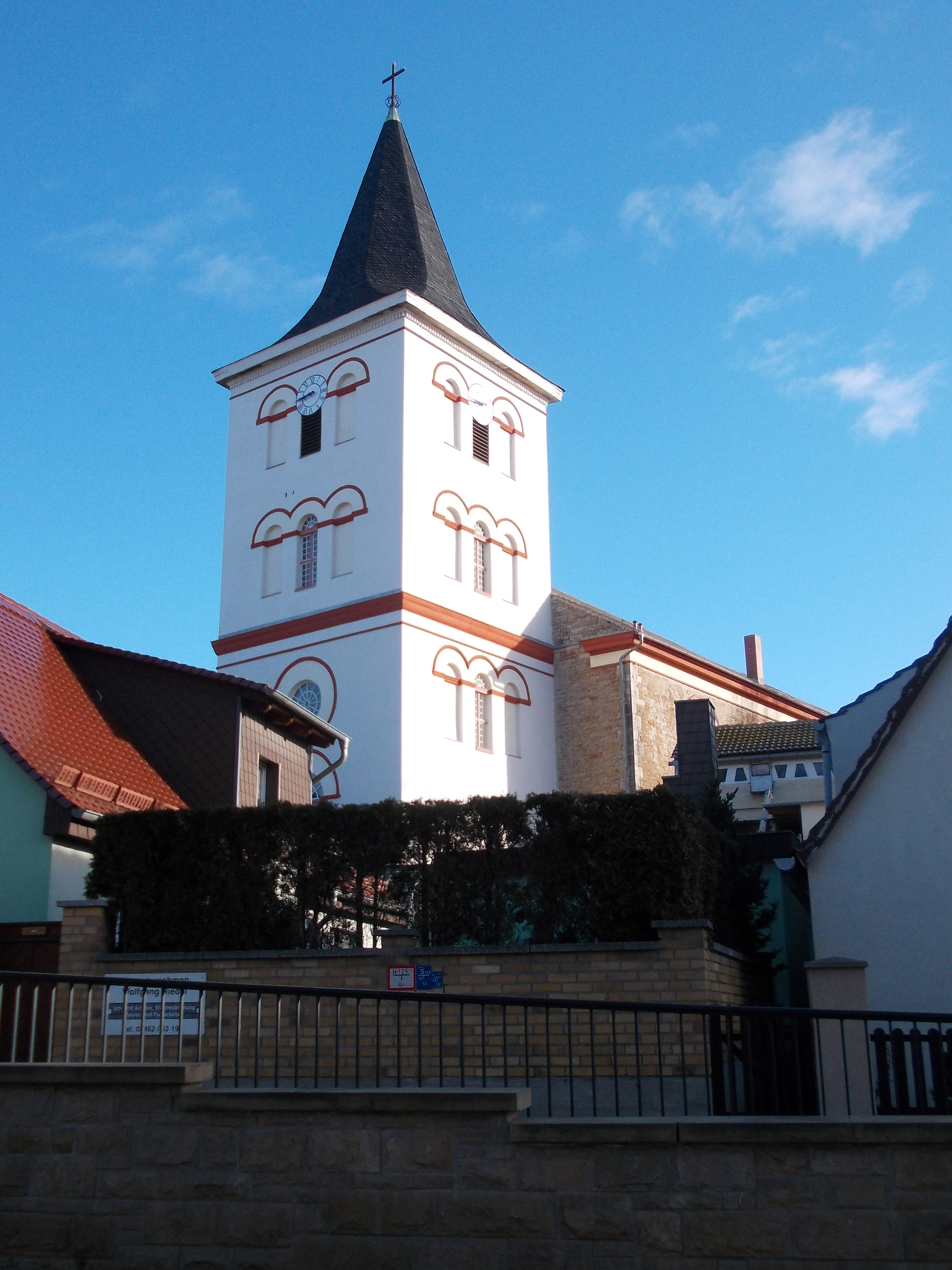 View of Saint Lawrence Church in Bad Dürrenberg (district: Saalekreis, Saxony-Anhalt)